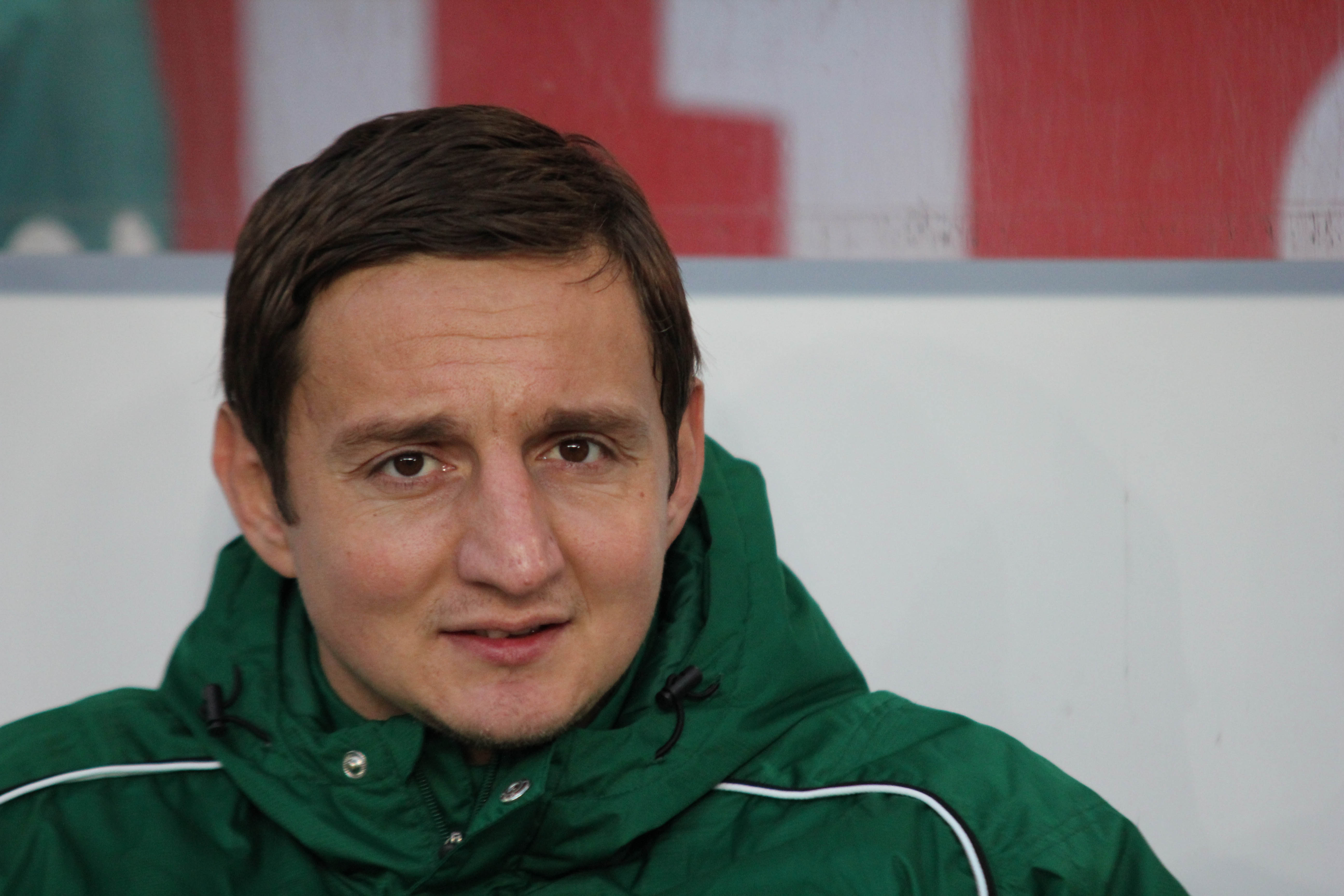 Bulgarian footballer Asen Karaslavov, SpVgg Greuther Fürth